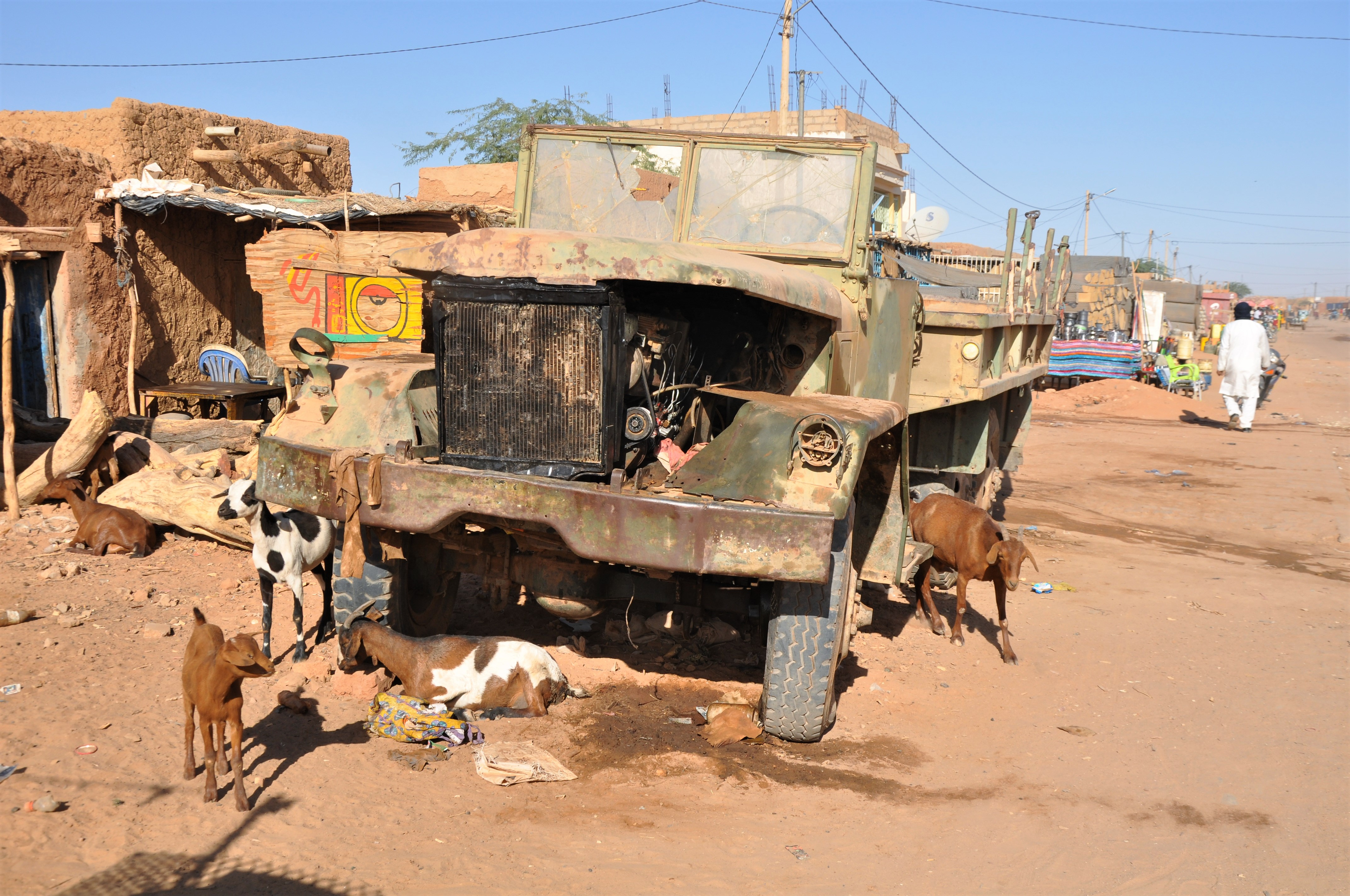 Goats seek shelter around an abandoned truck in Arlit, a large mining town in northern Niger.